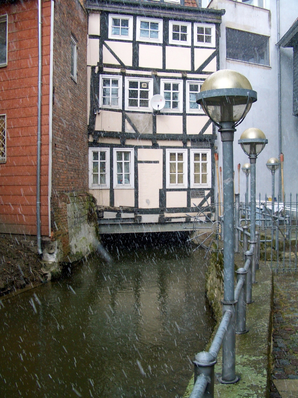 Wolfenbüttel Waterways near Krambuden